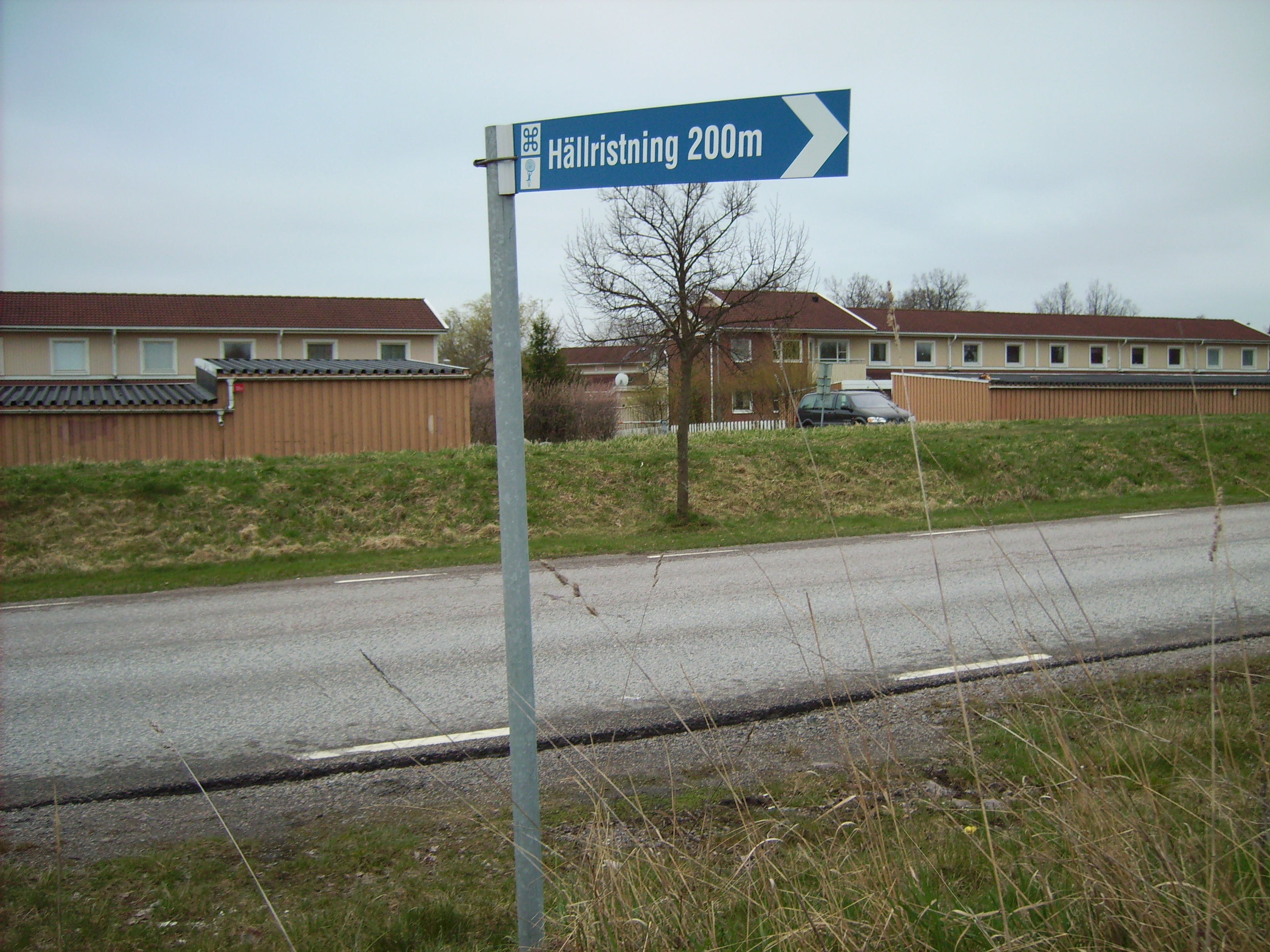 Photo by Harri Blomberg.